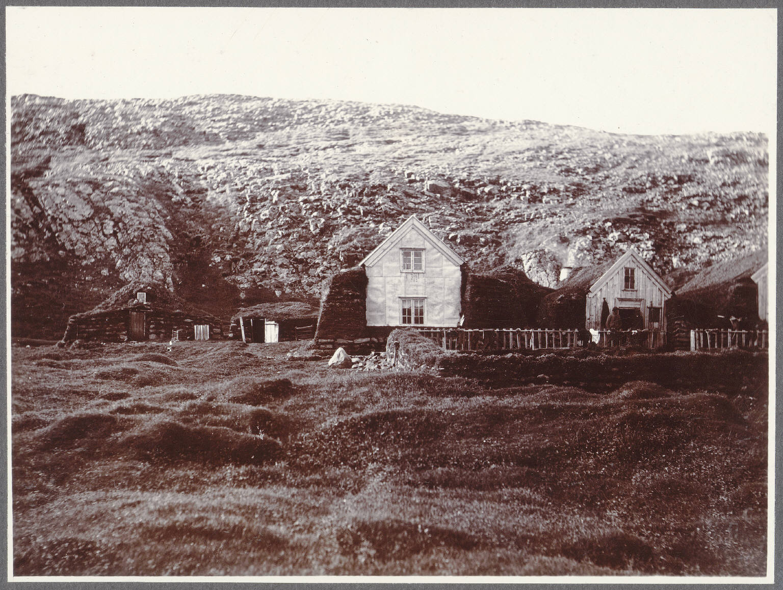 Collection: Icelandic and Faroese Photographs of Frederick W.W. Howell, Cornell University Library Title: Helgafell (Snæfellsnes). Farm and hill. Date: ca. 1900 Place: Helgafell (Snæfellsnes- og Hnappadalssýsla, Iceland : Farmstead) Medium: collodion print Repository: Fiske Icelandic Collection, Rare & Manuscript Collections, Cornell University Library Accession: 1923.5.44 URL: Persistent URI: There are no known U.S. copyright restrictions on this image. The digital file is owned by the Cornell Univeristy Library which is making it freely available with the request that, when possible, the Library be credited as its source. We had some help with the geocoding from Web Services by Yahoo!